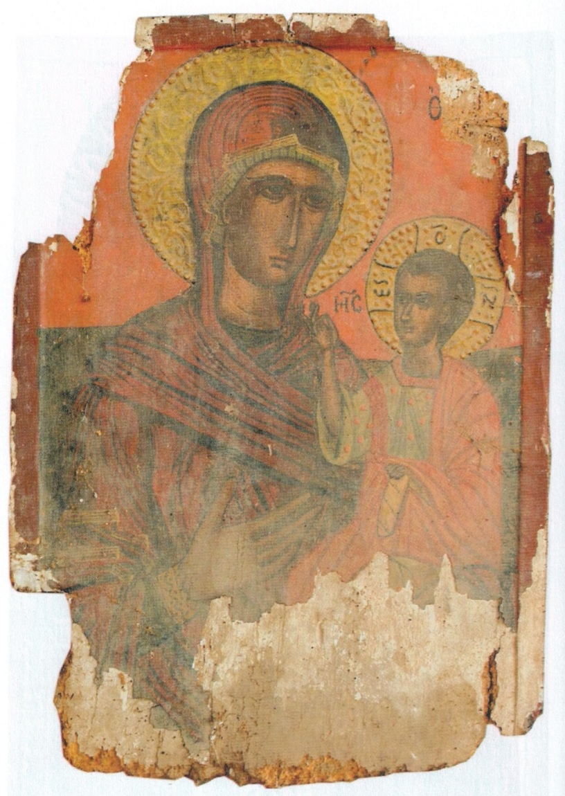 Saint Mary with Christ Icon in Saint Mary Church in Zhurche, First Half of 17th Century